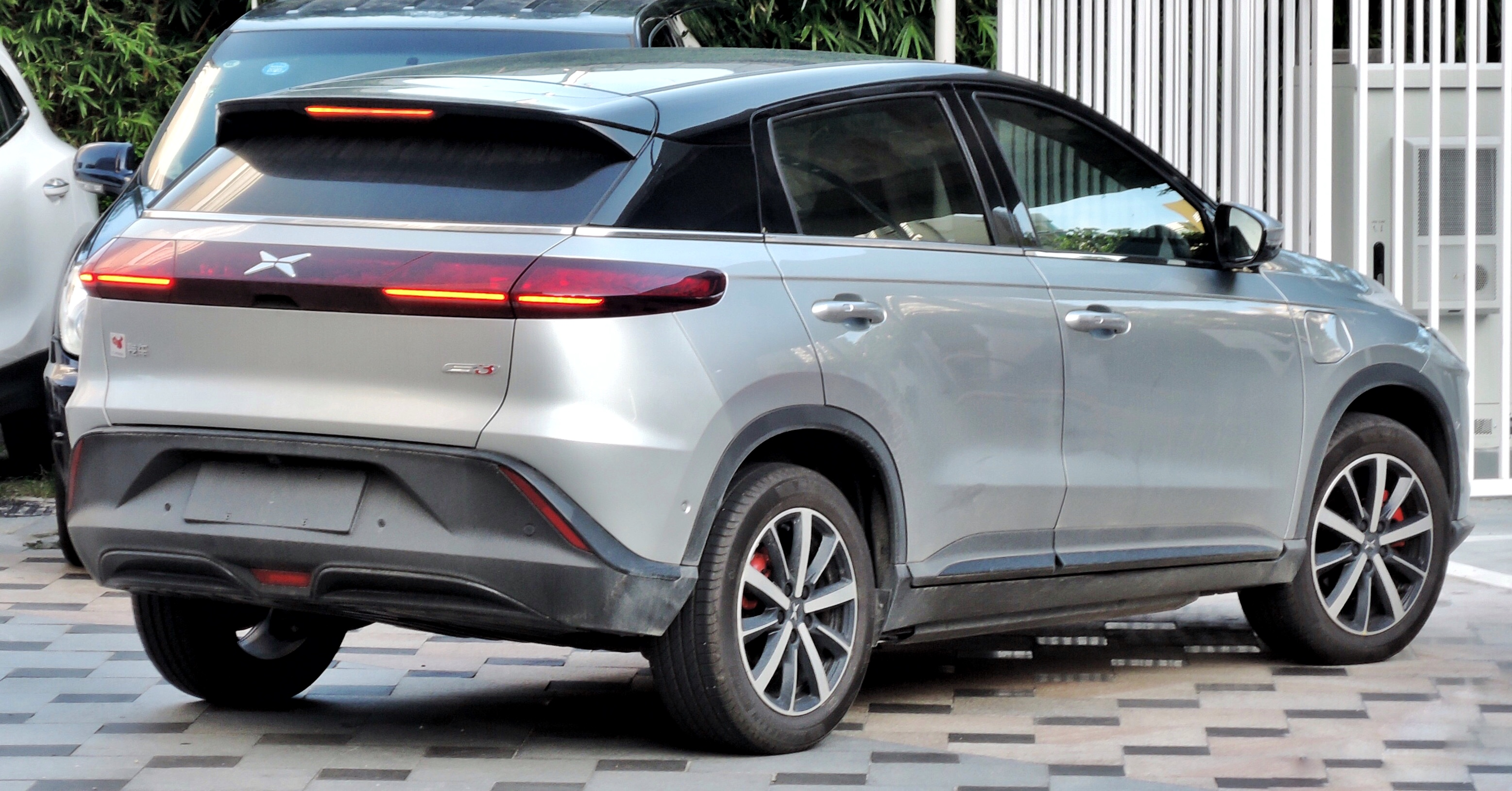 Rear view of a Xpeng G3, taken in Zhuhai, Guangdong province, China. 中文（中国大陆）: 小鹏G3的后视图，摄于中国广东省珠海市。